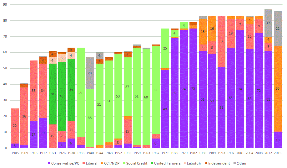 Stacked bar graph showing election results in Alberta since the creation of the province.